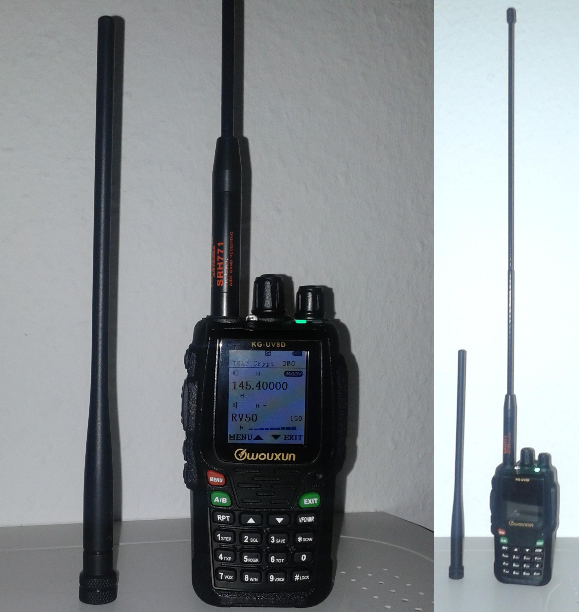 Wouxun KG-UV8D with Diamond SRH-771, original antenna aside Wouxun KG-UV8D mit Diamond SRH-771, Originalantenne abgesetzt